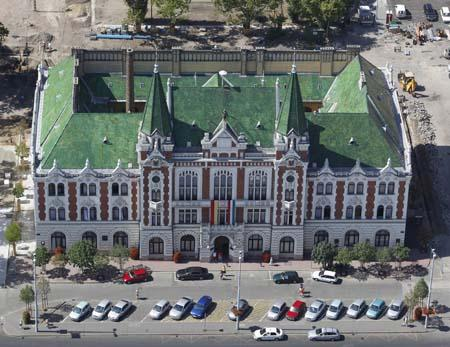 Újpest, Budapest, Hungary, aerial photography, town hall